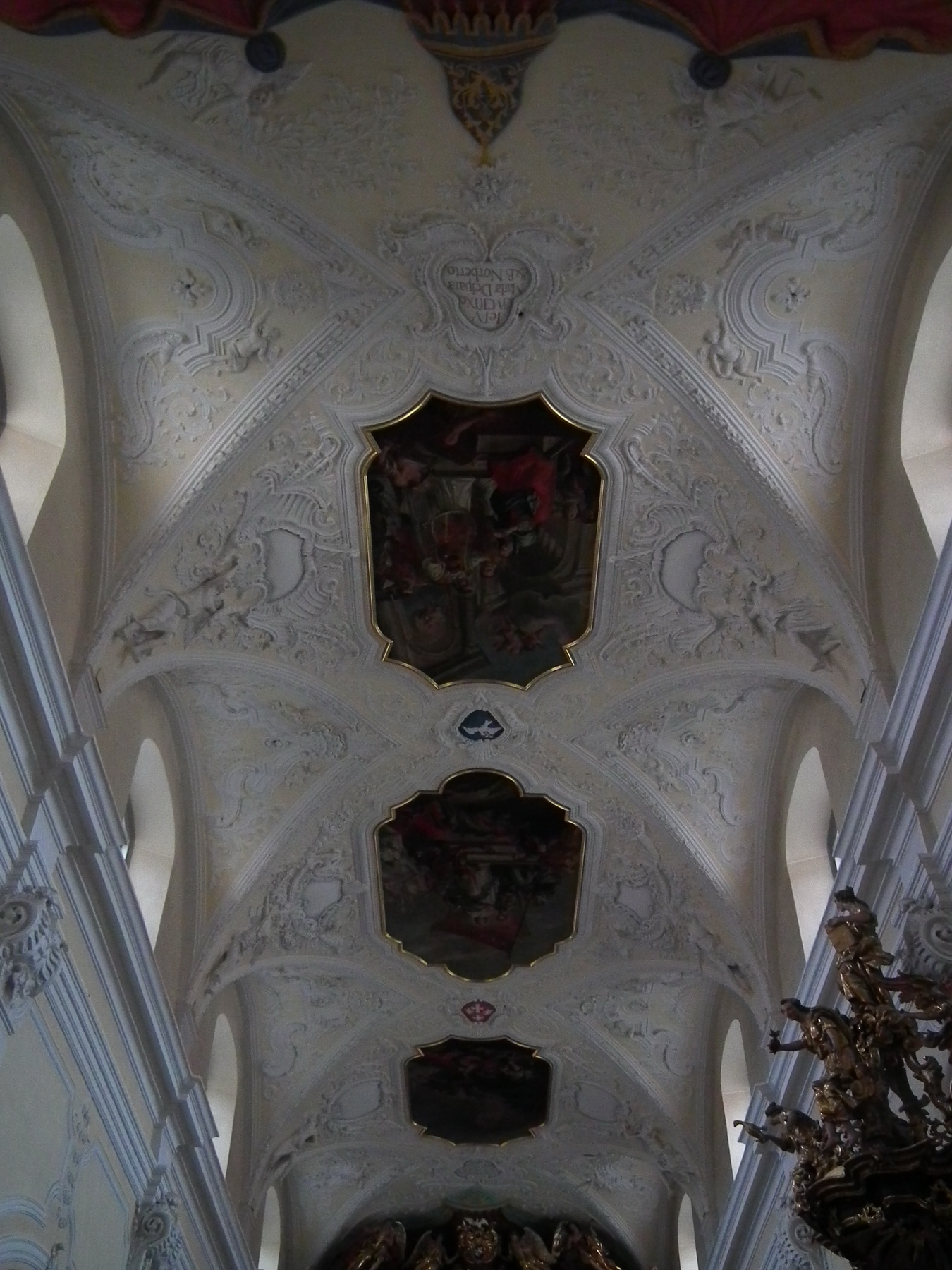 Church of the Holy Cross Native namePfarrkirche Heilig KreuzLocationGerlachsheim, Baden-Württemberg, GermanyCoordinates49° 34′ 47.32″ N, 9° 43′ 13.08″ E